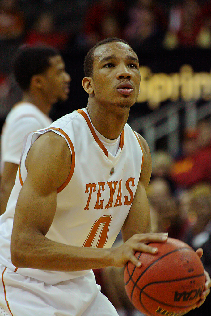 Bball player Avery Bradley